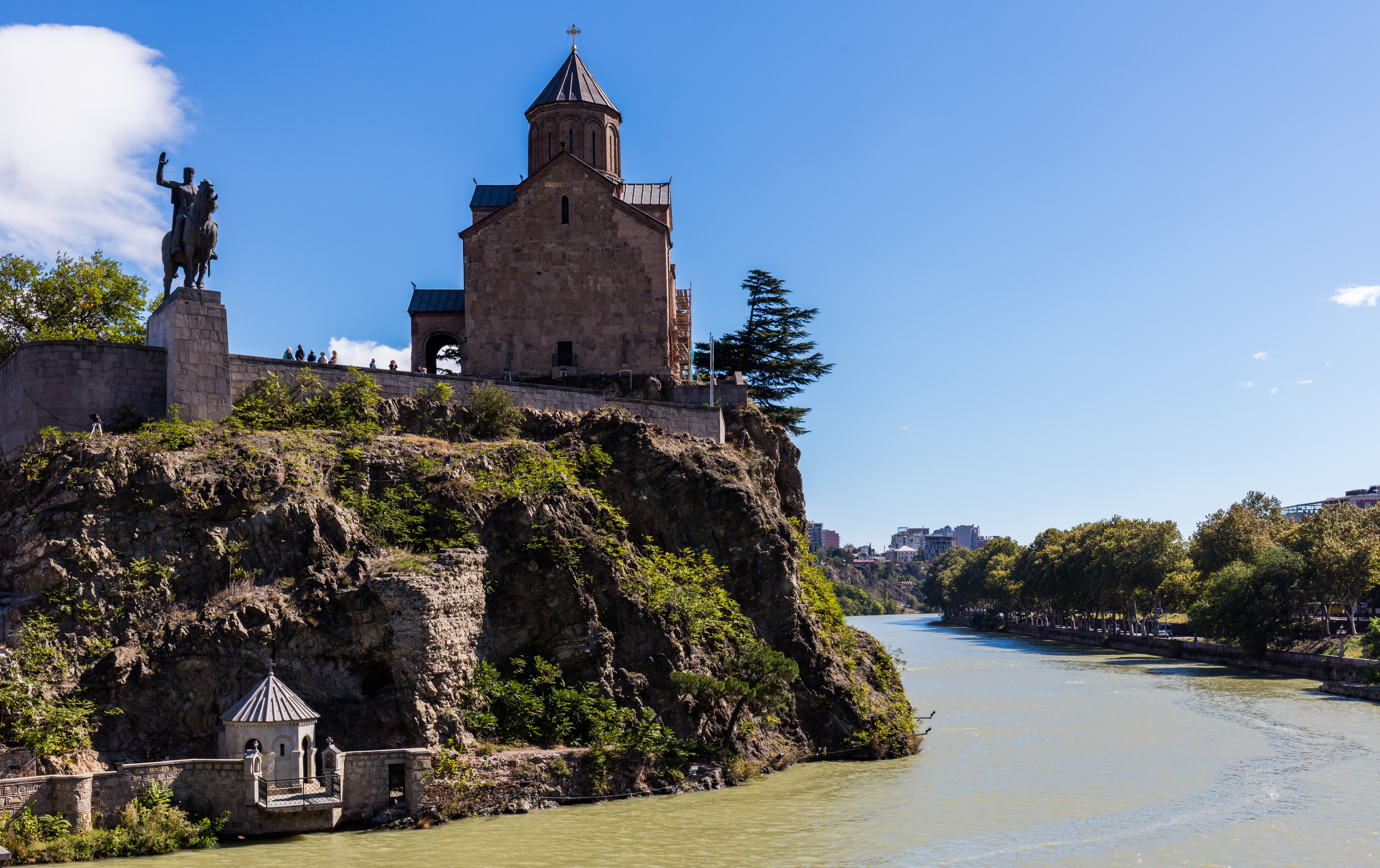 Iglesia de Metekhi, Tiflis, Georgia